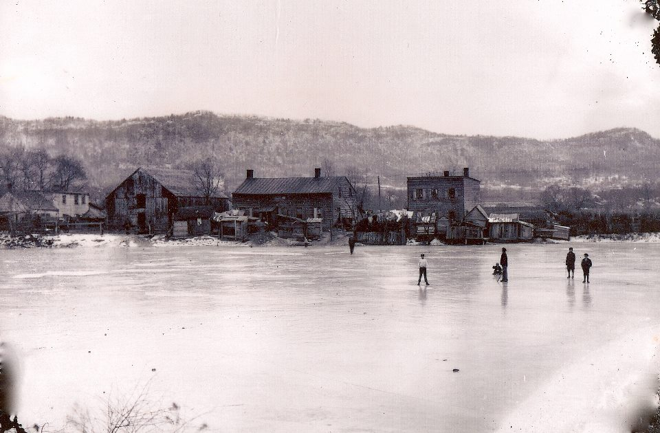 Ice Skating on a Pond, Haverstraw. Palisades Escarpment and Low Tor in the background.